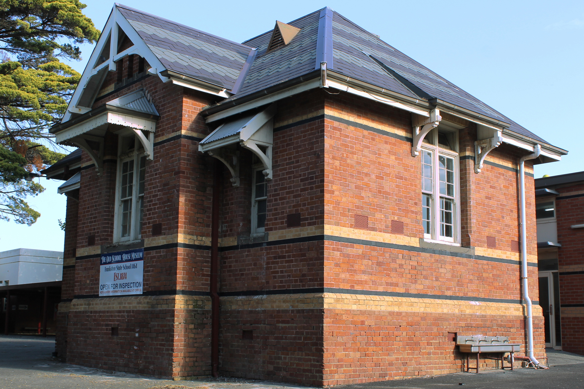 Old School House Museum at Frankston Primary School, built in 1889 on Davey Street in Frankston, Victoria, Australia.